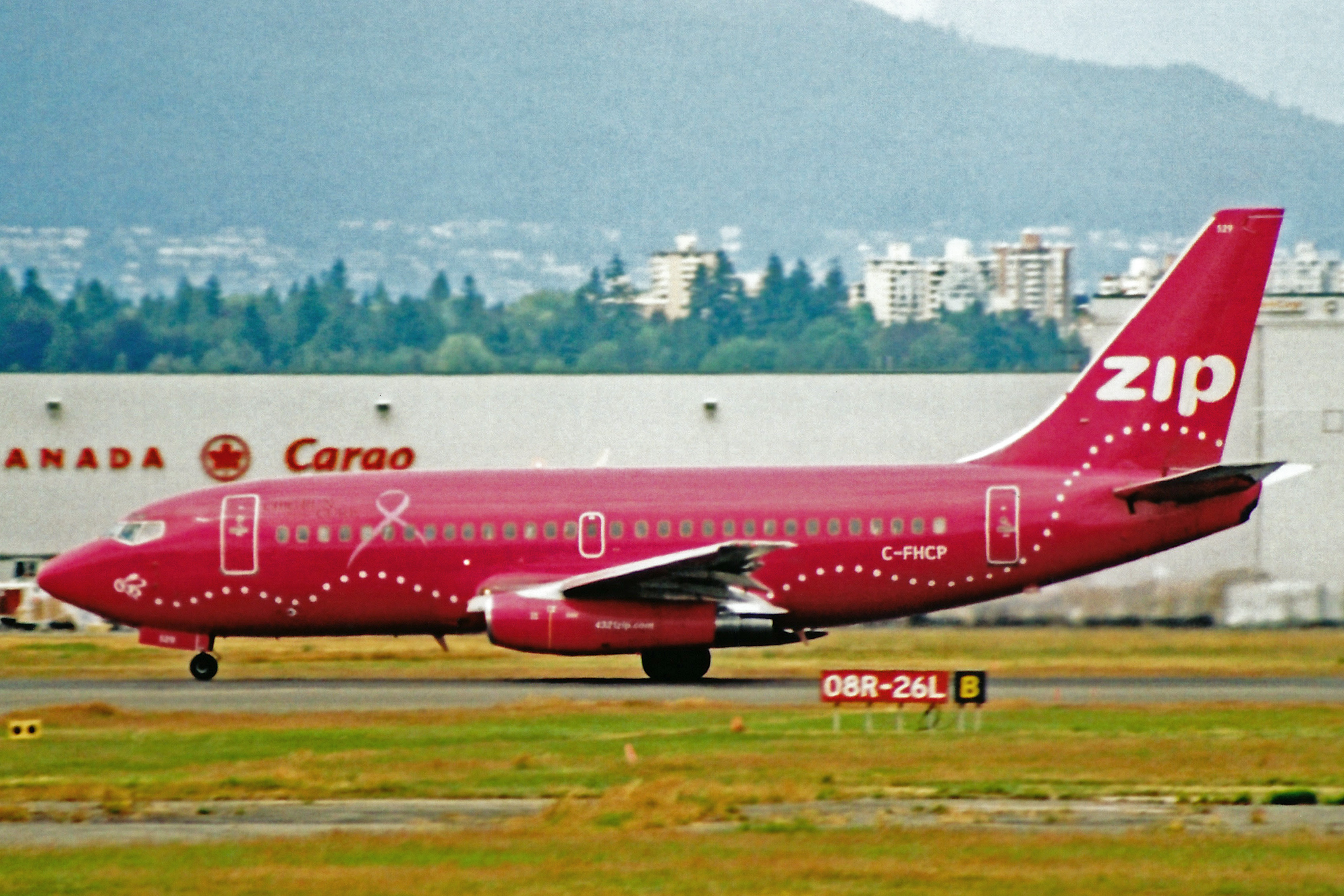 This was the full Zip Air livery, this one in Fuschia.